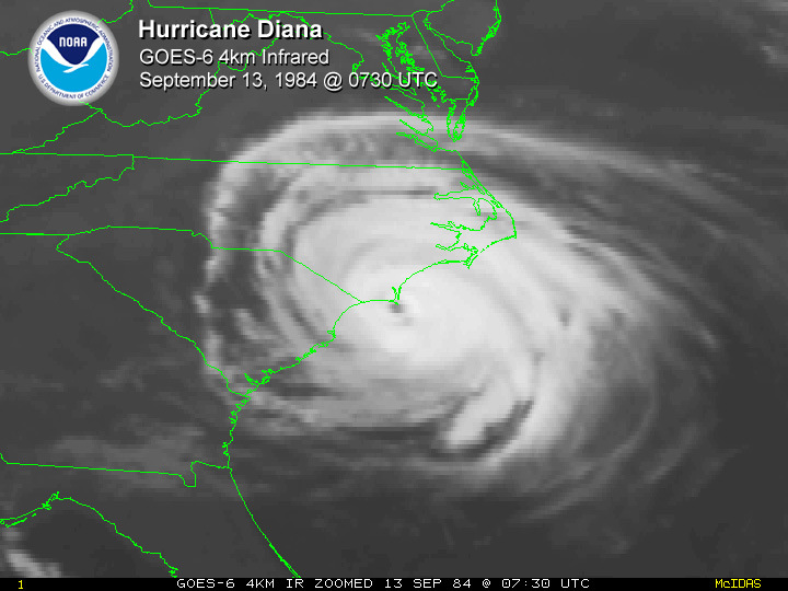 Hurricane Diana shortly before landfall in South Carolina